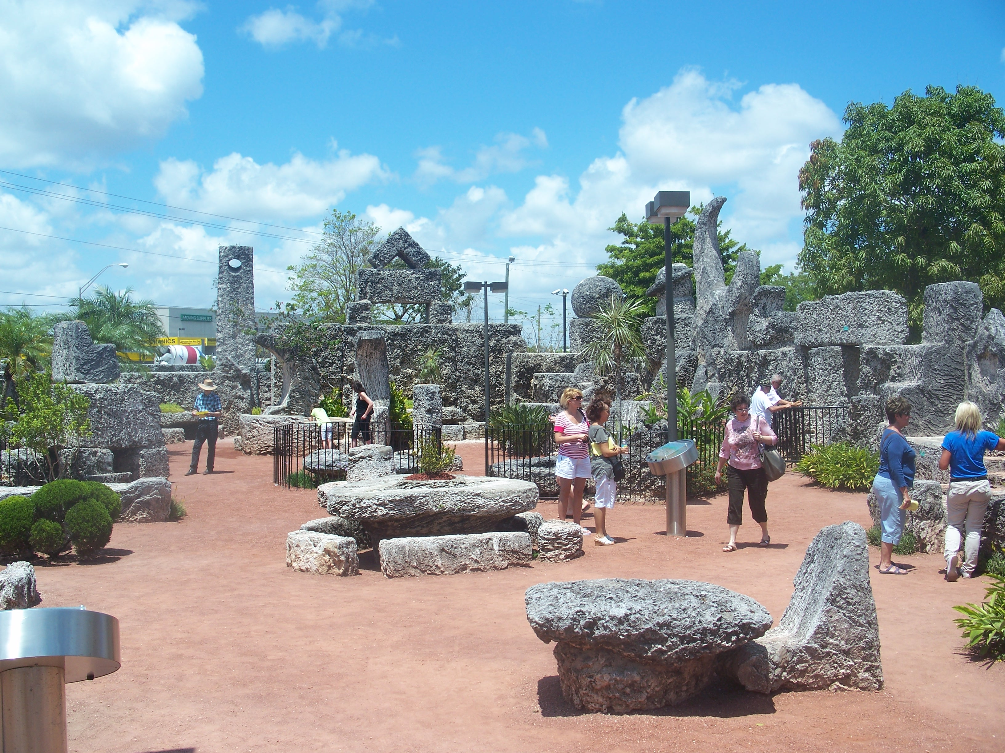 Homestead, Florida: Coral Castle